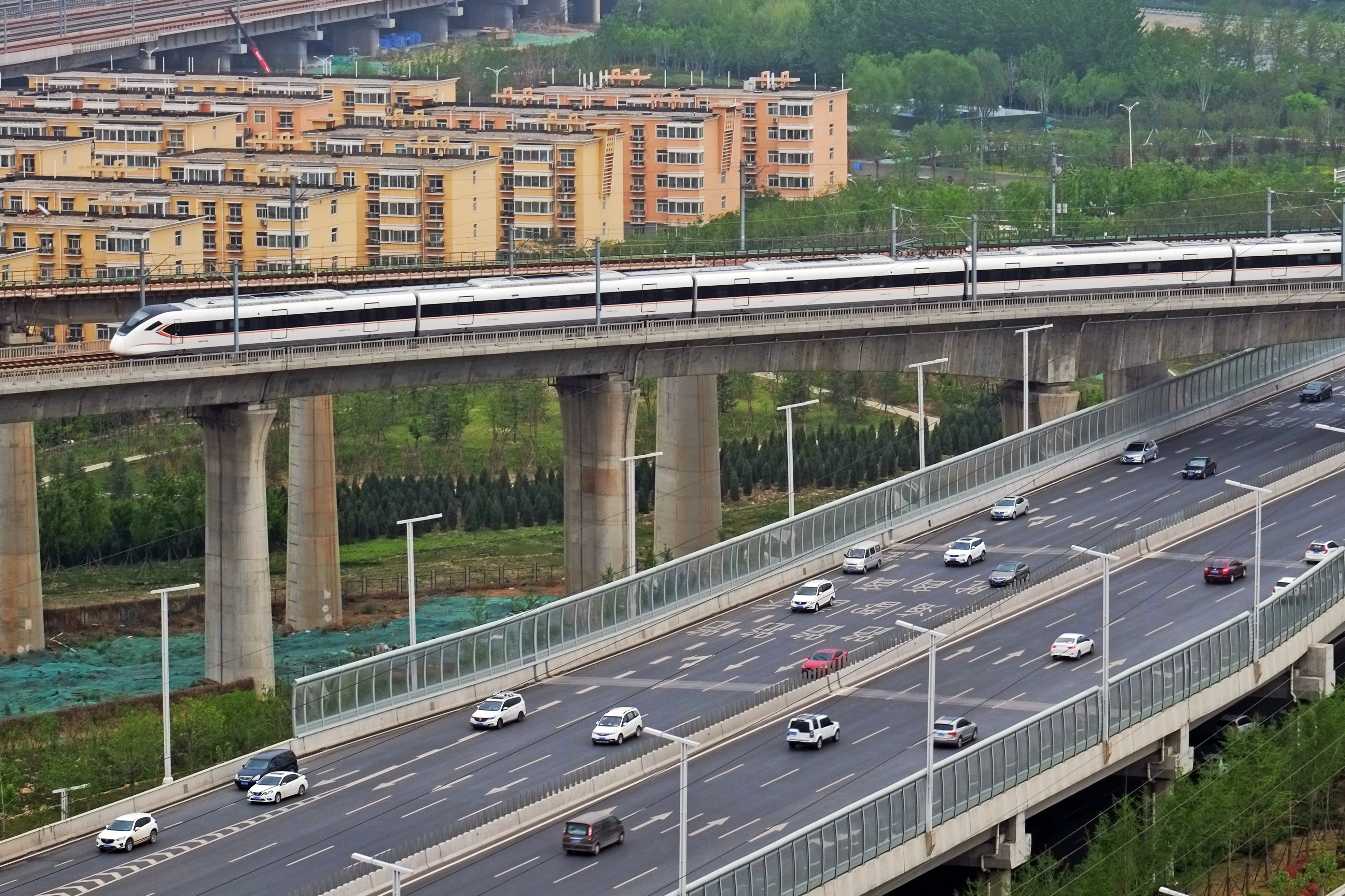 CRH6A-0422 on Zhengkai ICR passing over E. 3rd Ring Road